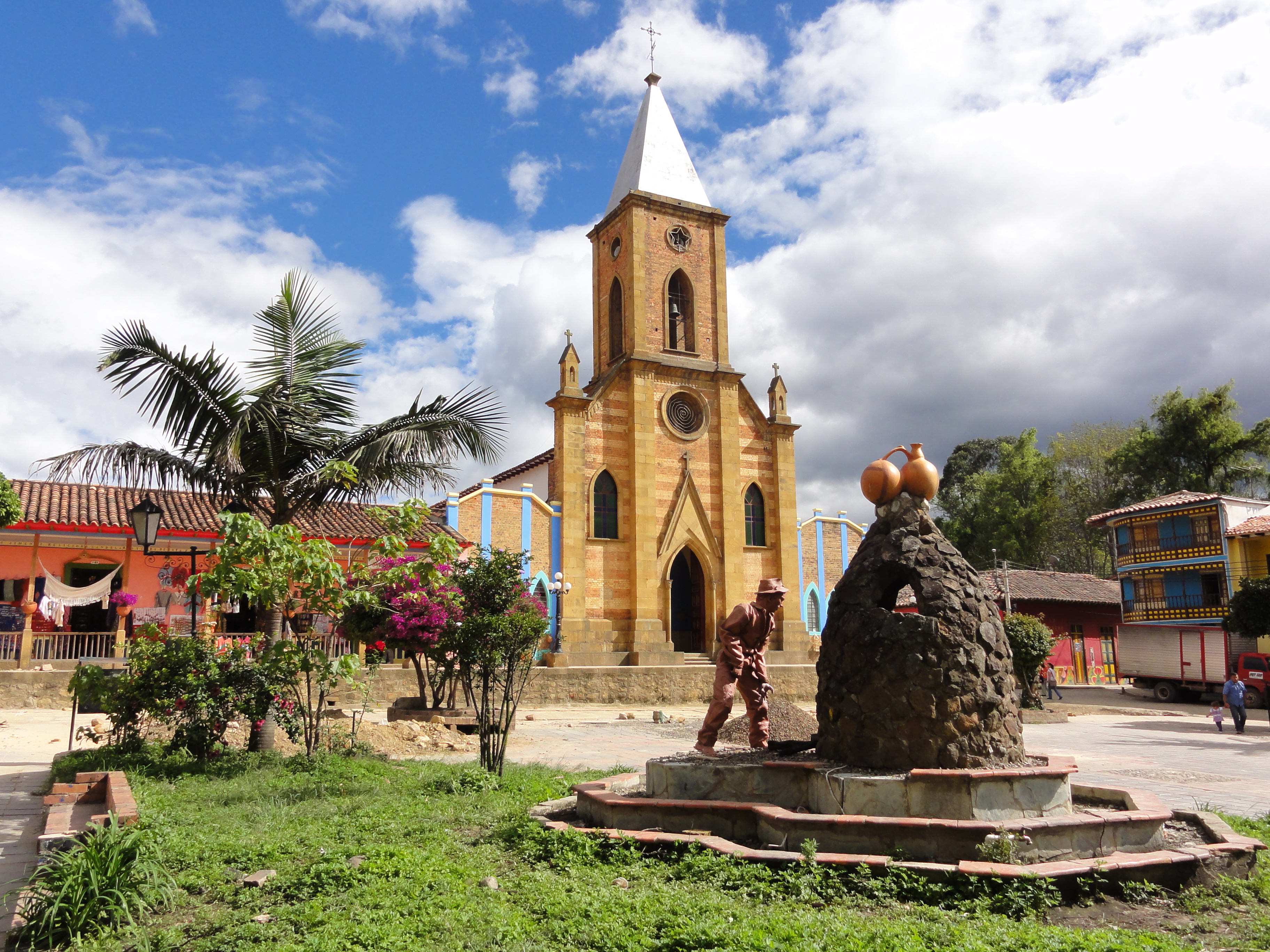 Raquira's Church